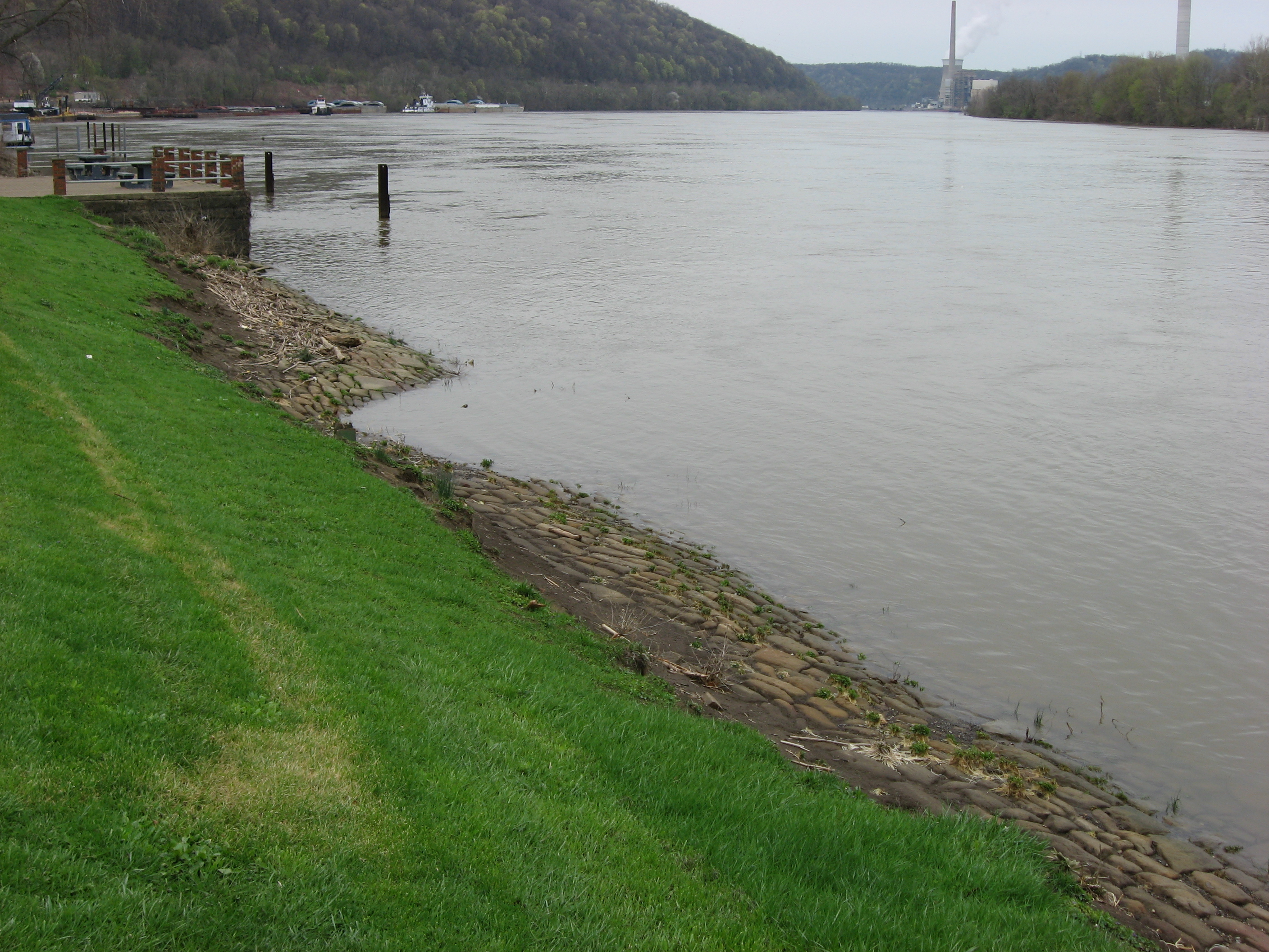 Overview of the Wellsburg Wharf, located along the Ohio River near the intersection of Sixth and Main Streets in downtown Wellsburg, West Virginia, United States. Built in 1836, it is listed on the National Register of Historic Places, and it is part of a Register-listed historic district, the Wellsburg Historic District.